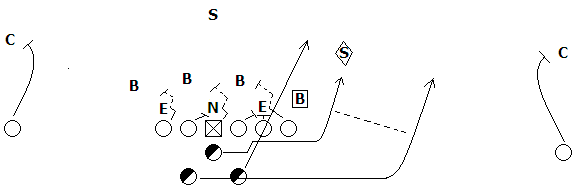 The outside veer, "high dive", or 12 veer play is used to attack a wide defensive end with a good probability of a give on the quick dive. It is a staple of the veer offense and along with the inside veer is one of the two most common base plays used by practitioners of the offense. It is traditionally used against odd defenses or those with a wide end. This play is the main reason veer teams use split backs, as all other veer plays could be run with the fullback behind the quarterback.